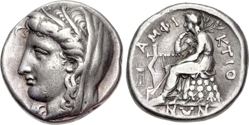 PHOKIS, Delphi. Circa 338/6-334/3 BC. AR Stater (23mm, 12.10 g, 10h). Amphiktionic issue. Head of Demeter left, wearing grain ear wreath and veil / Apollo seated left on omphalos, right elbow resting on top of large kithara to left, left hand holding long laurel branch that rests on his left shoulder; tripod to left, AMΦI-KTIO-NΩN around.